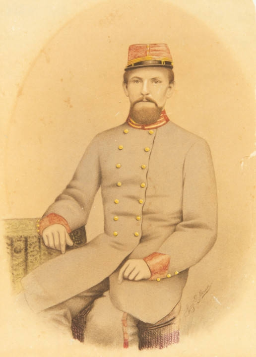 Portrait of Captain John James Ward, Ward's Battery, Alabama Light Artillery, C.S.A., Alabama Department of Archives and History